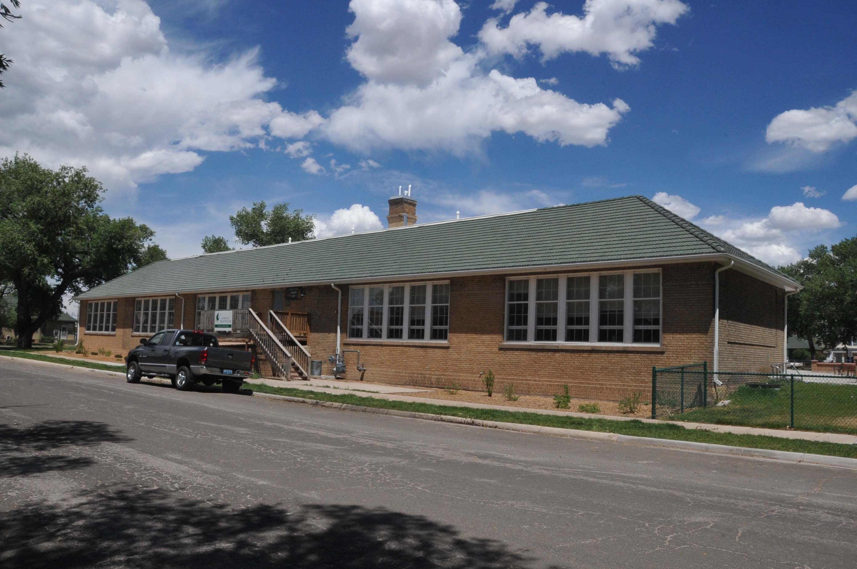 Built 1920–1924 but continued as a school for many years thereafter. Now houses a Montessori school